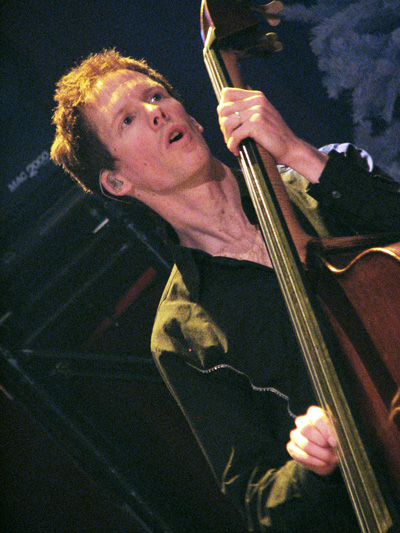 Jim Creeggan of Barenaked Ladies playing bass at Massey Hall.